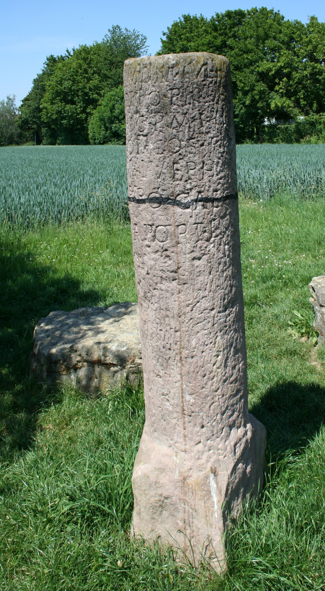 Part reconstruction and Leugenstein of Römerstrasse "stone street" near Kornwestheim, administrative district Ludwigsburg, Baden-Wurttemberg, Germany.